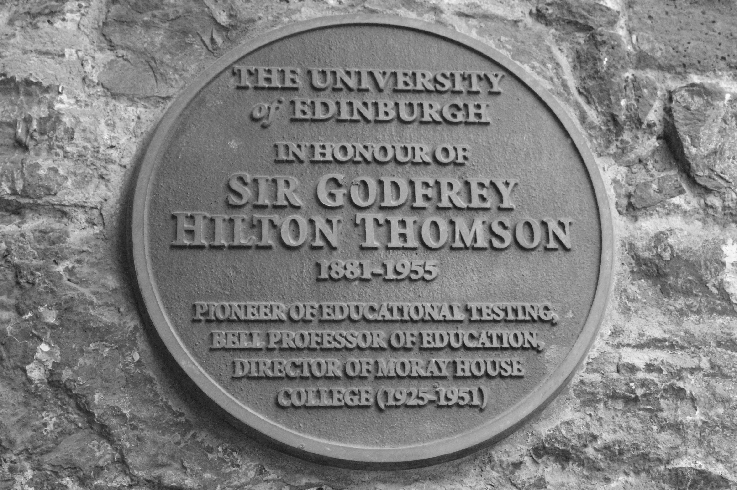 Plaque to Sir Godfrey Hilton Thomson at Moray House on the Canongate